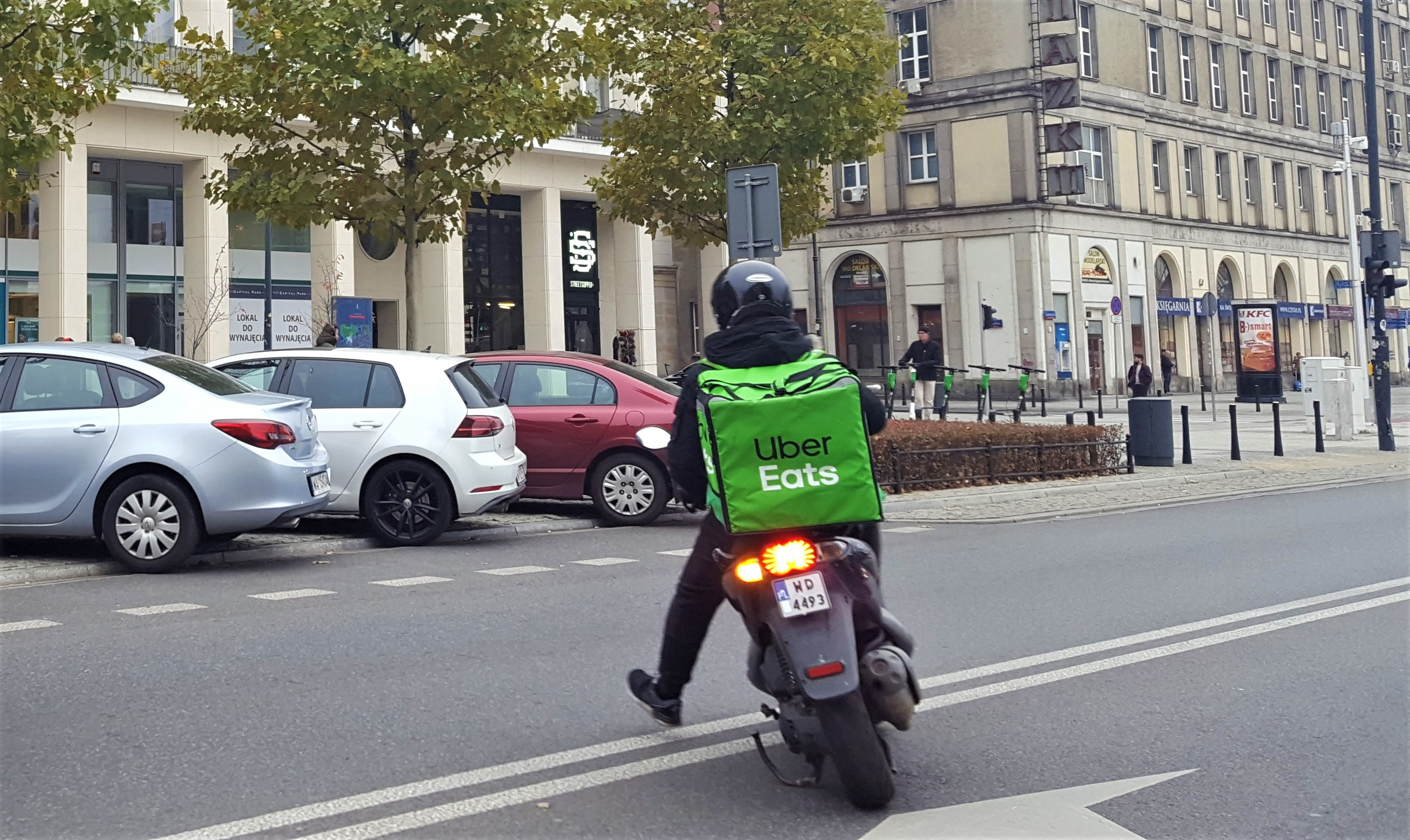 Uber Eats motorbiker in Warsaw